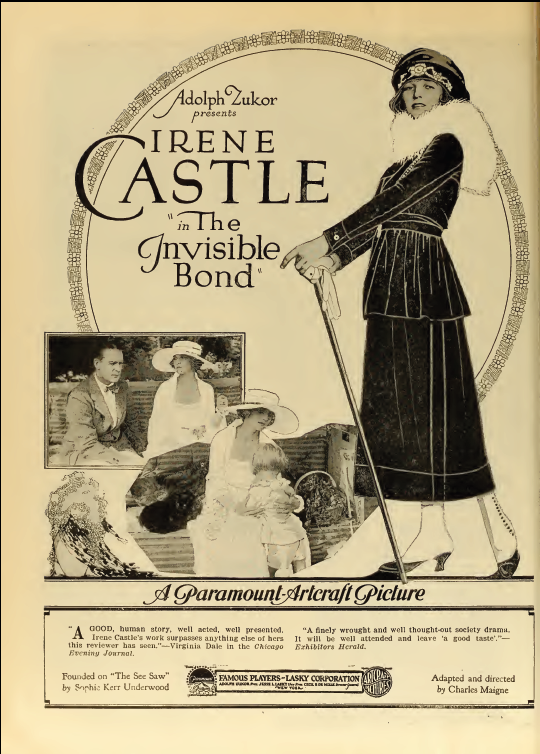 Ad with Irene Castle for the film The Invisible Bond (1919).